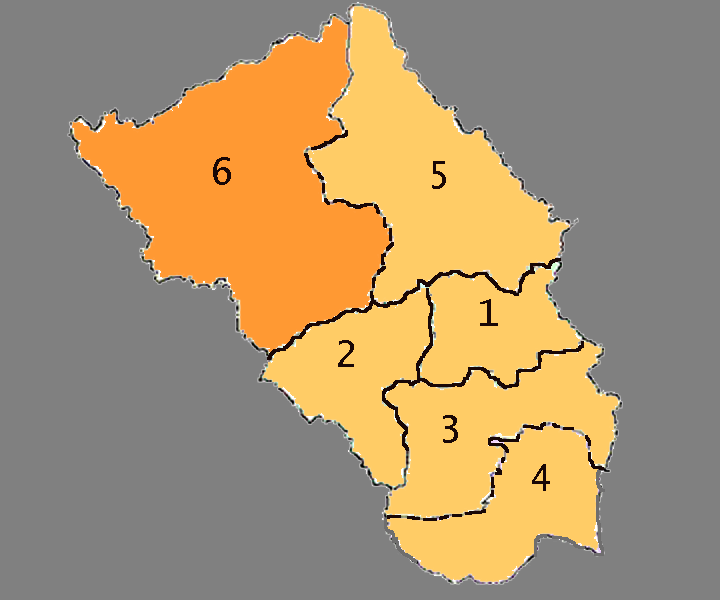 Municipalities of Zaozhuang city in Shandong province, China